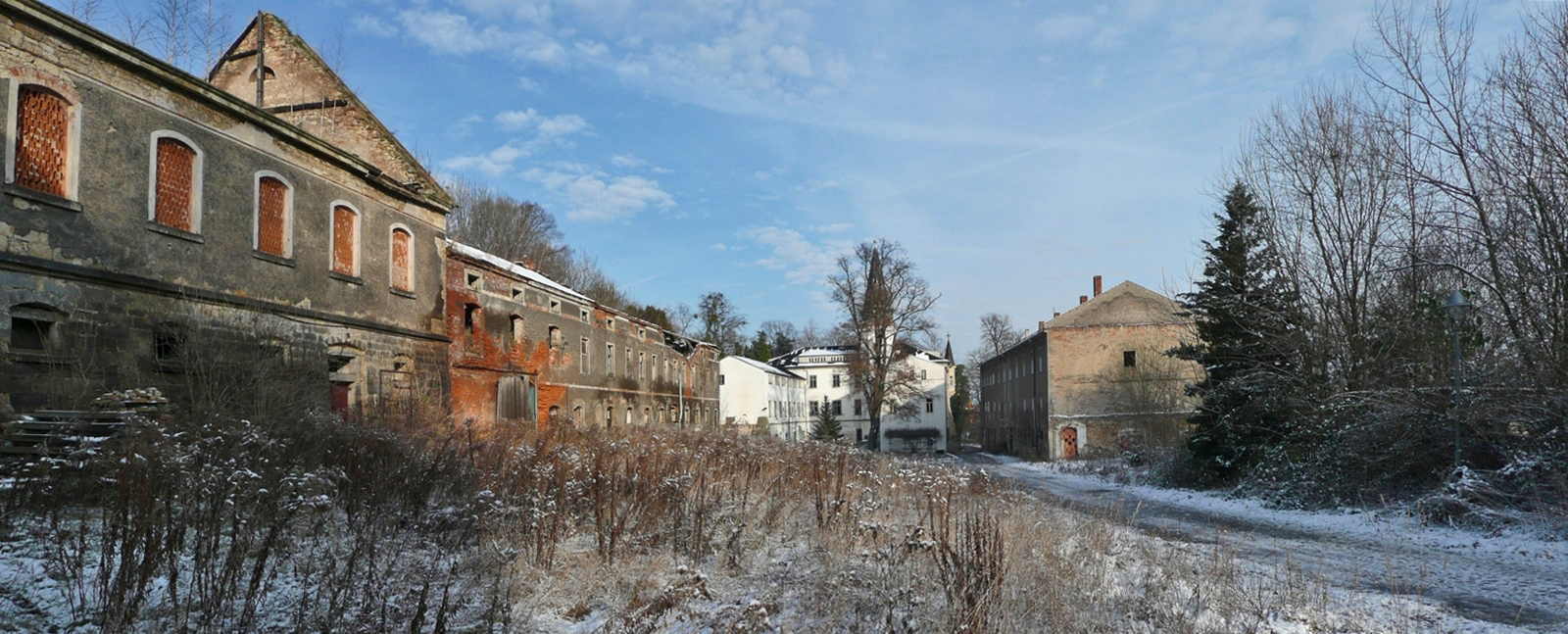 This image shows Nöthnitz Palace (Schloss Nöthnitz) in Nöthnitz (Bannewitz) near Dresden.